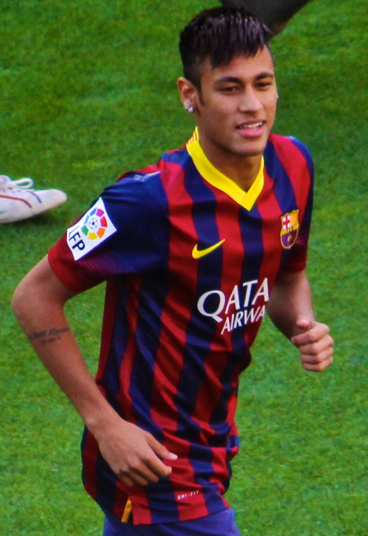 Neymar Jr. during his presentation as a Barcelona player.